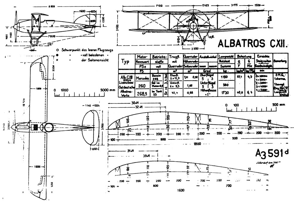 IdFlieg-submitted Baubeschreibung drawing of Albatros C.XII German World War 1 two seat reconnaissance aircraft